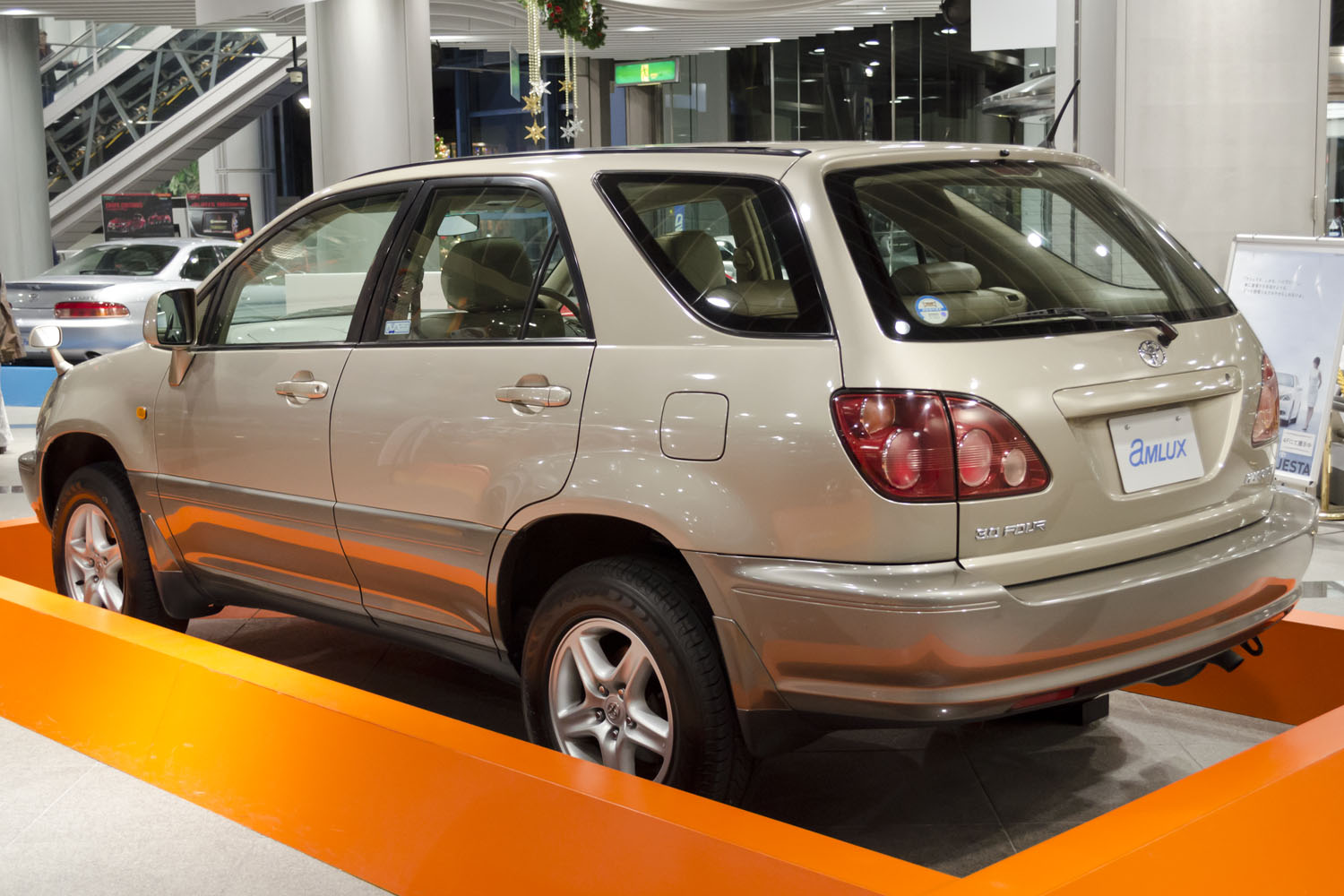 1st generation Toyota Harrier